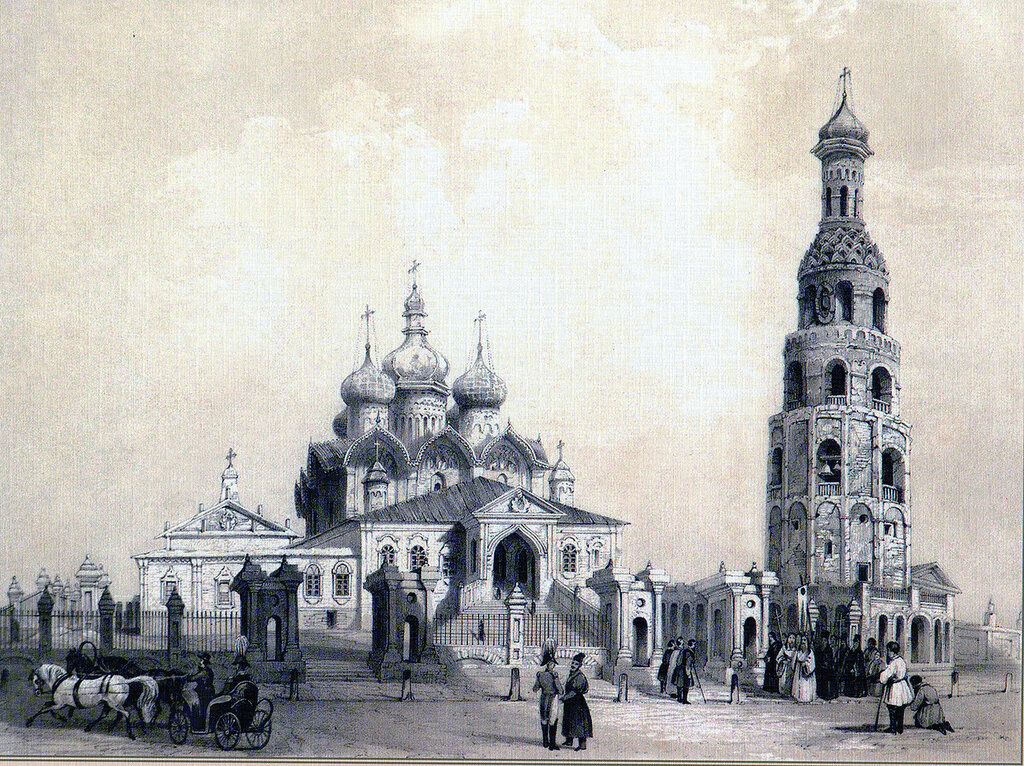 Annunciation cathedral in Kazan Kremlin, drawing by E. Turnerelli, 1837